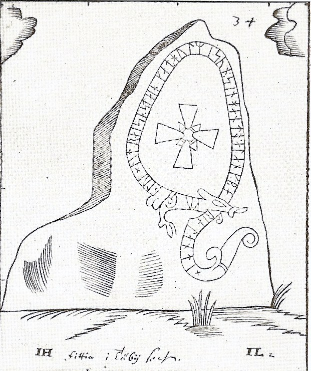 Runestone U 141 as depicted by Johan Leitz and Johan Hadorph in Johan Peringskiöld's Monumenta, Vita Theoderici and B 133. The stone said: "Guðlaug had the stones raised in memory of Holmi, her son. He died in Lombardy." (Rundata 2.5 (2008))